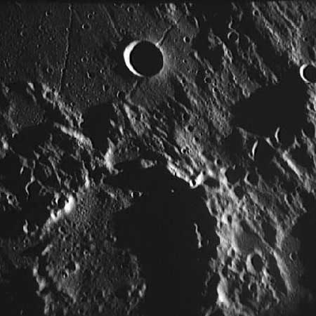 Rhaeticus lunar crater - Apollo-10 image AS10-33-4948